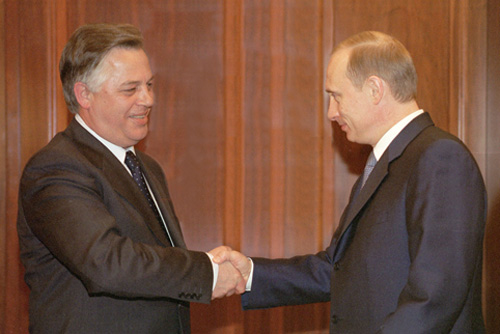 THE KREMLIN, MOSCOW. Vladimir Putin with Petro Symonenko, first secretary of the Central Committee of the Communist Party of Ukraine.